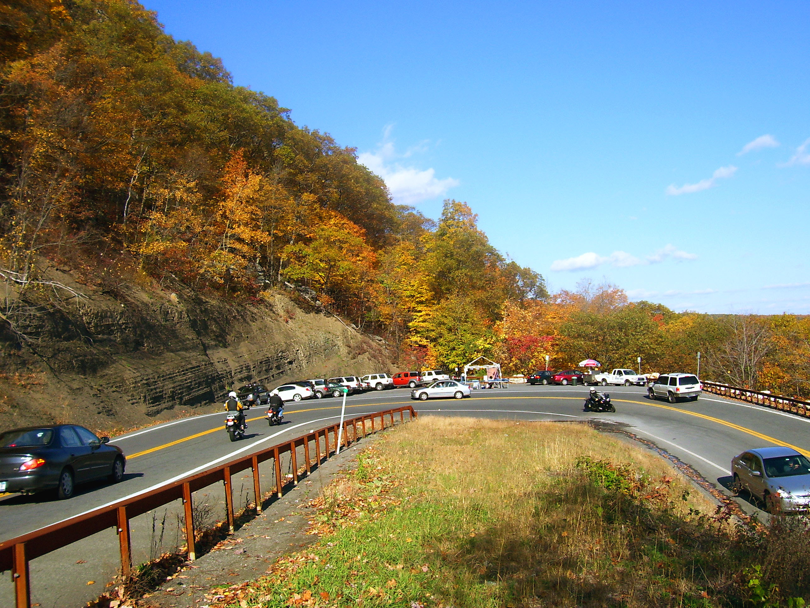 Photographed by Daniel Case 2006-10-21